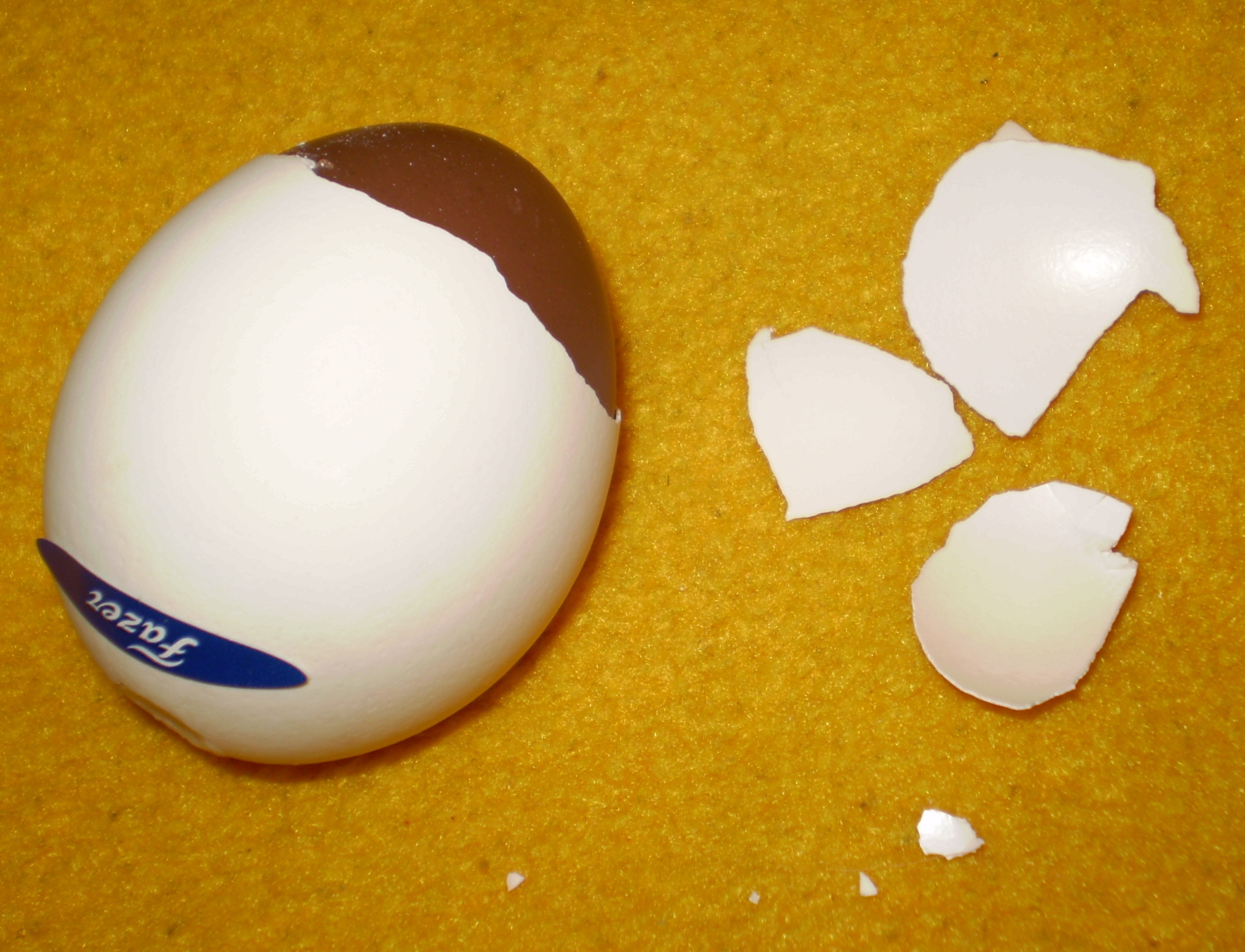 Partially peeled chocolate egg Mignon producted by Fazer.